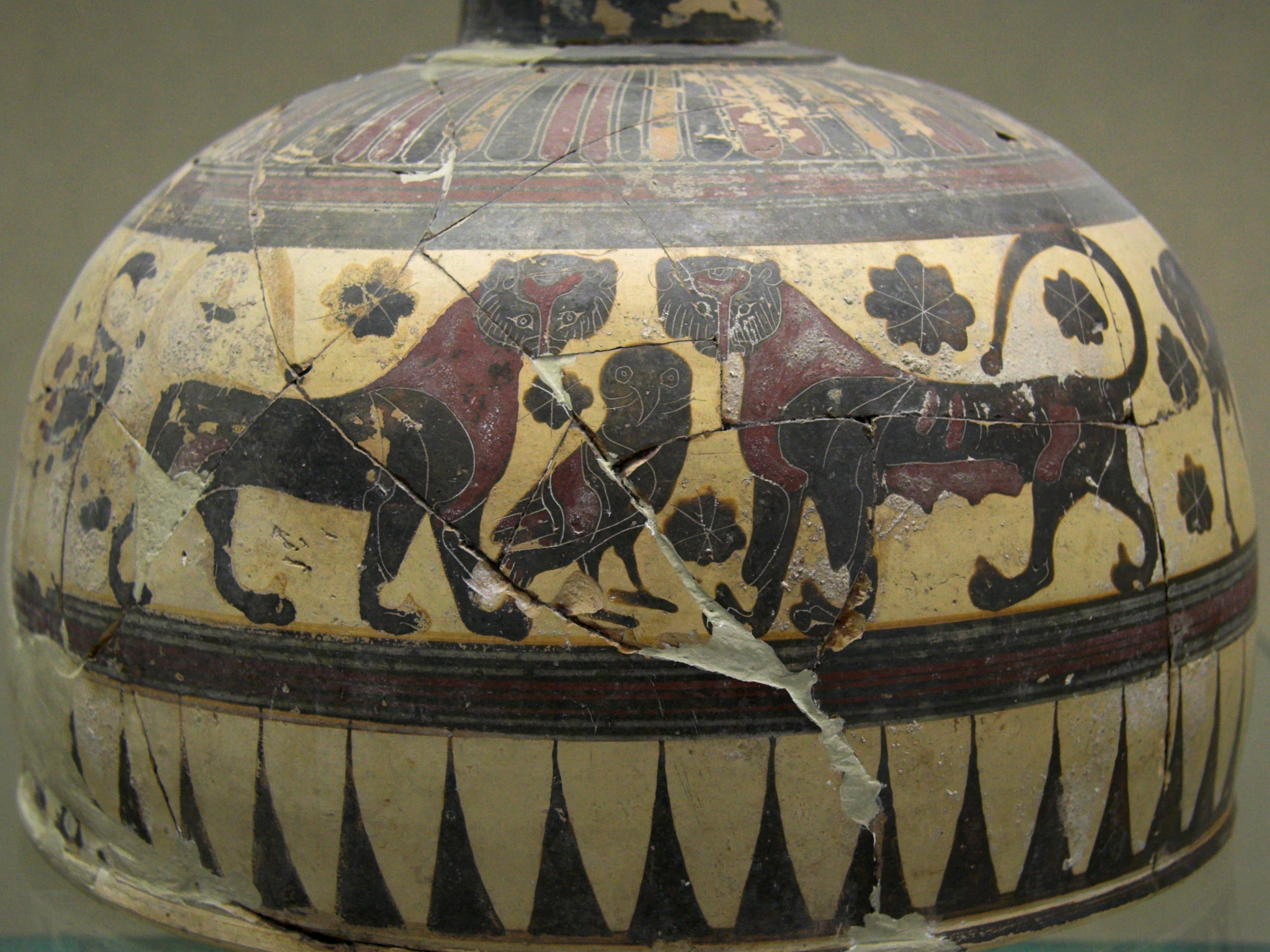 Proto-Corinthian or Corinthian oinochoe. Owl between the lion and lioness. Around 625 BC. Archaeological Museum of Syracuse.